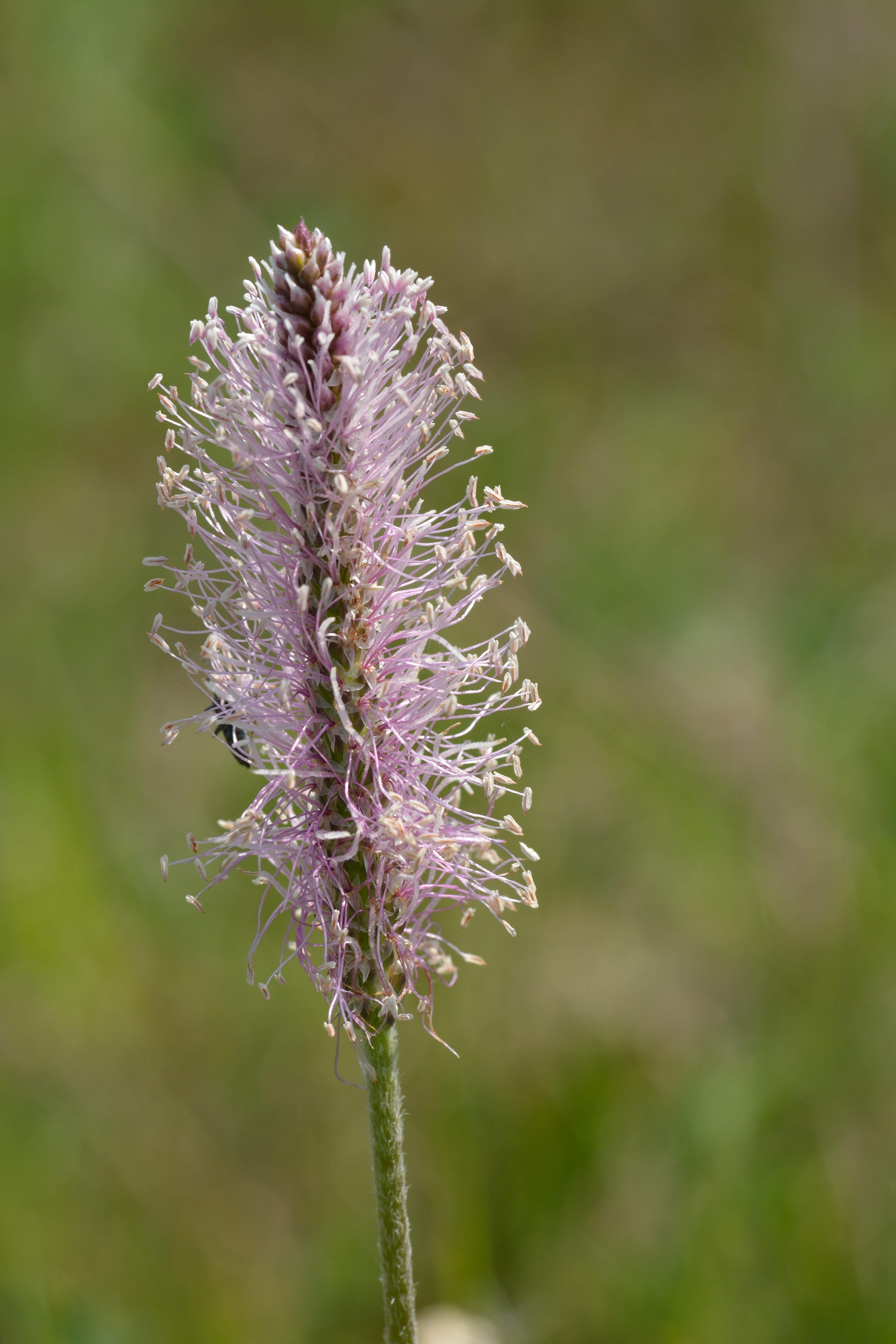 Flowering Plantago media, natural habitat in northwestern part of Keila (Estonia)